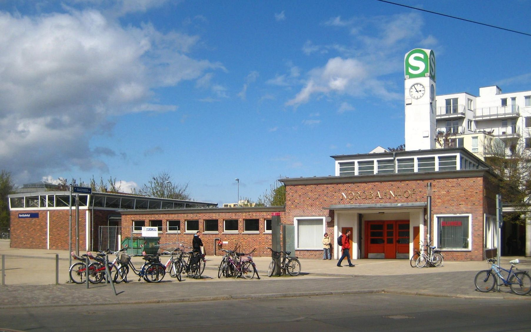 Entrance building to the subterranean city railway station Nordbahnhof on Invalidenstraße in Berlin-Mitte. Station and building were constructed from 1934 to 1936. They have been designated as a historic landmark.